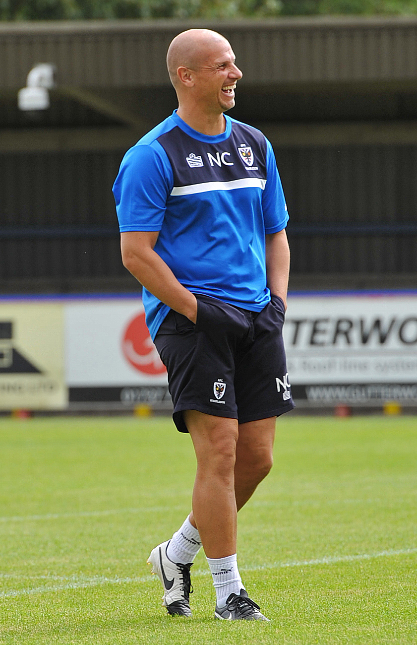 AFC Wimbledon players train during the club's open day at The Cherry Red Records Stadium, 4 August 2015